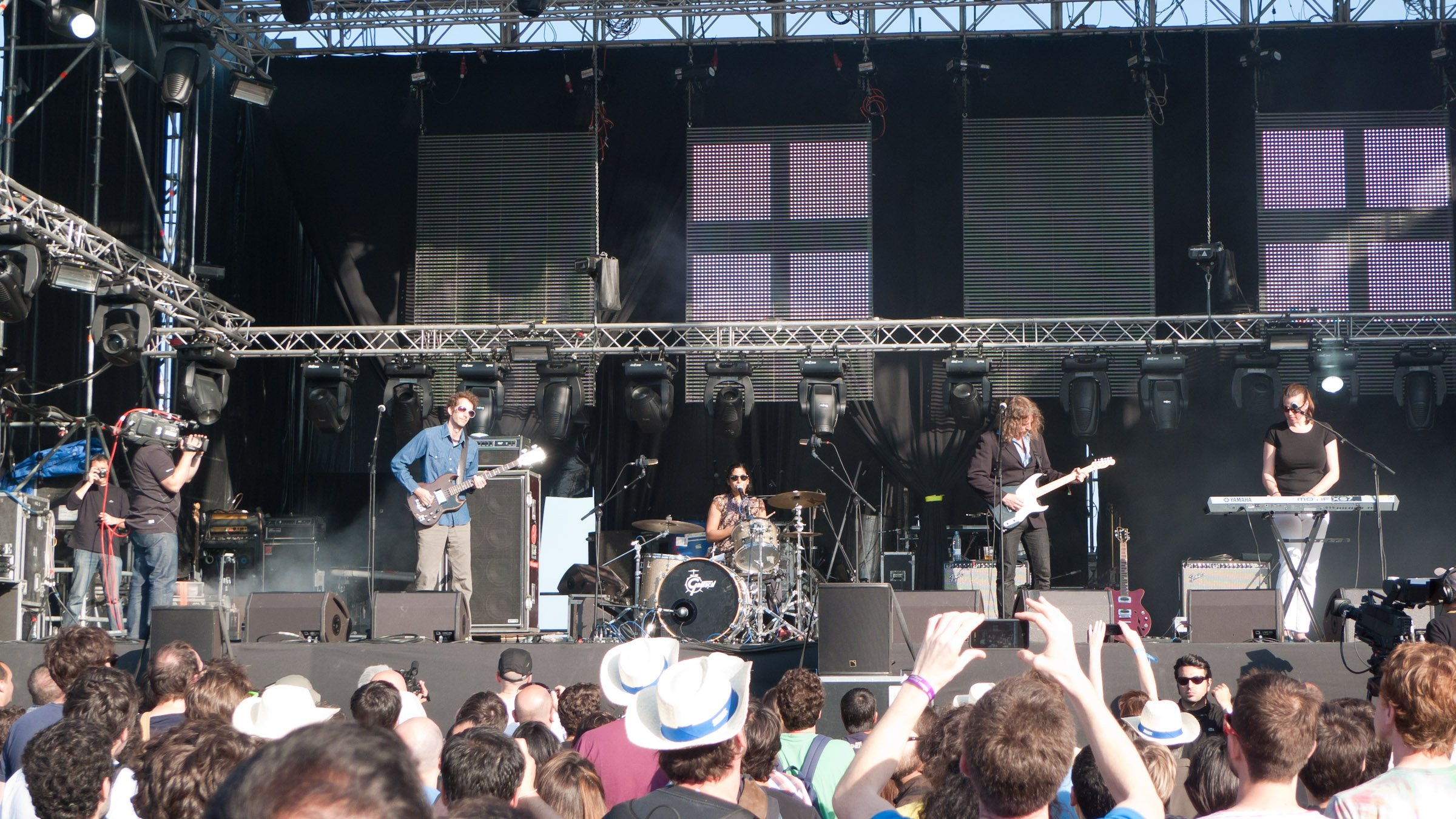 Papas Fritas, Boston-based indie rock trio, performs at Primavera Sound 2011 in Barcelona, Spain on The Ray Ban Stage (May 28, 2011)